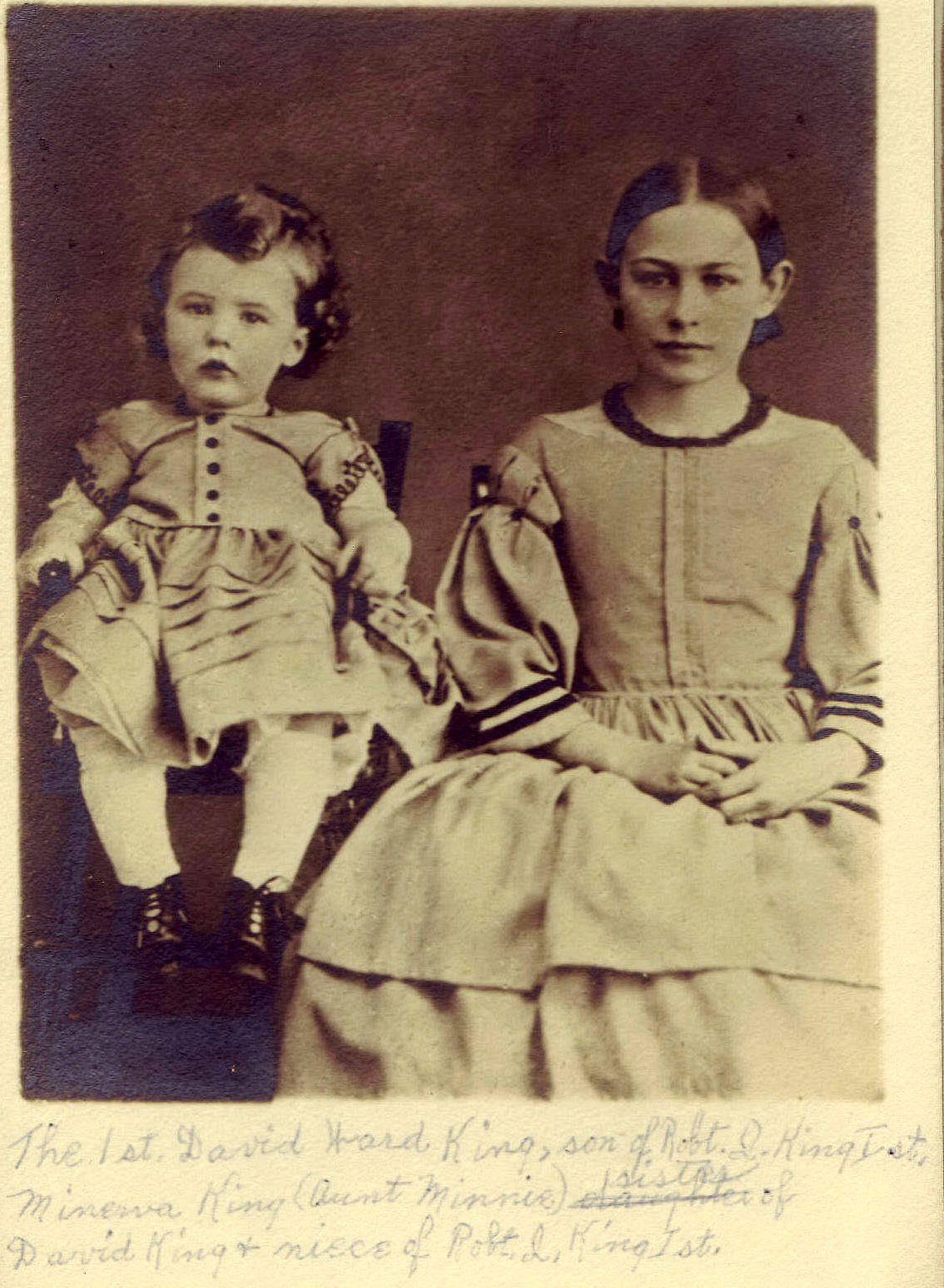 More than 100 year old photo